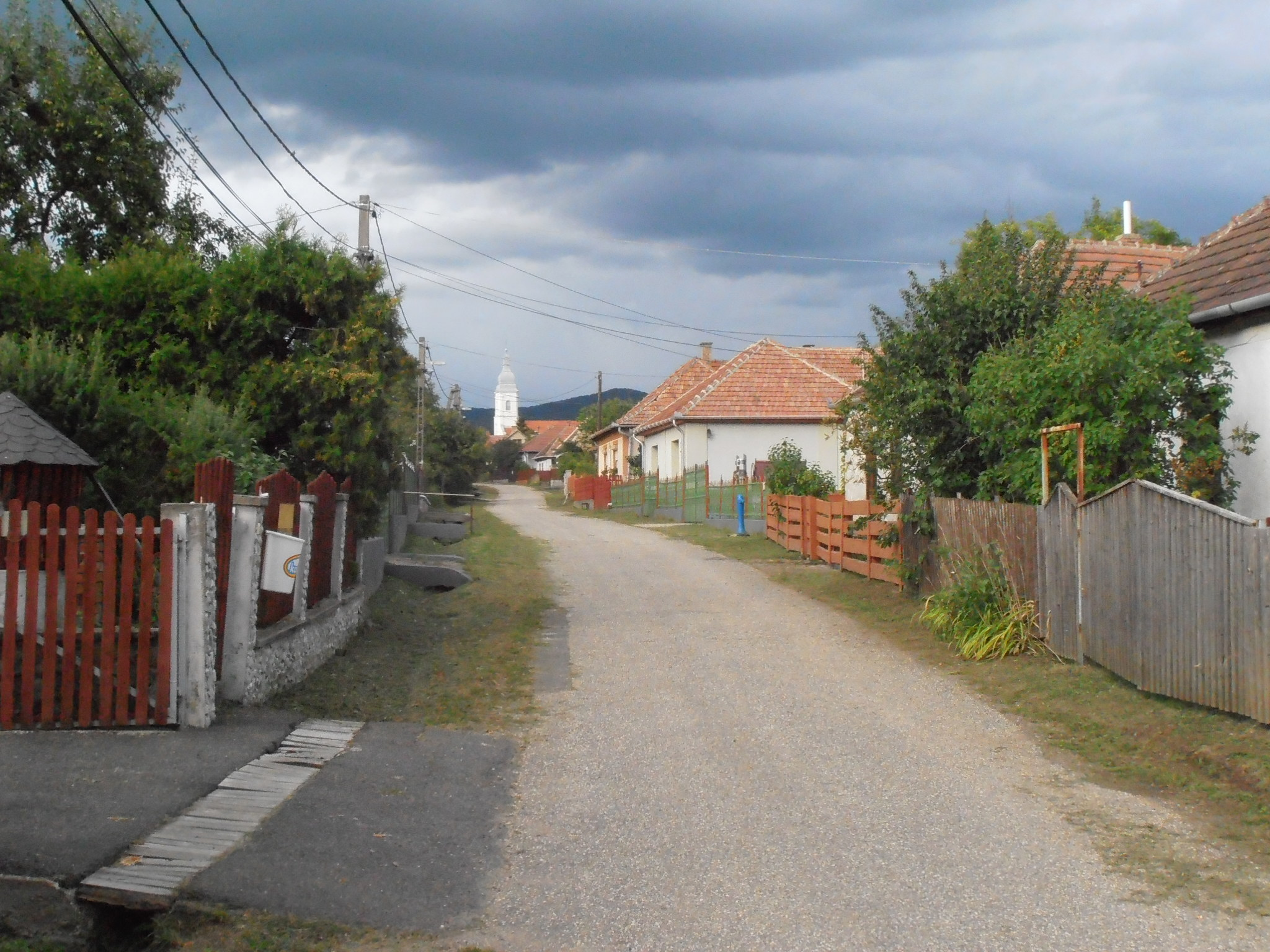 Street in Mogyoróska, Hungary